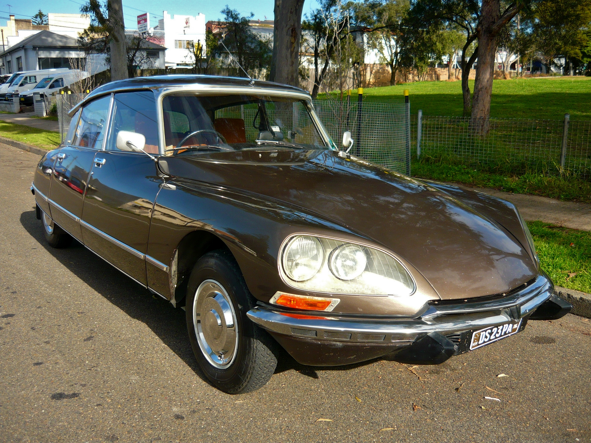 1975 Citroen DS23 Pallas sedan.